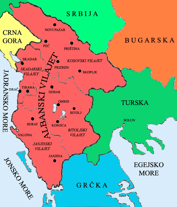 League of Prizren has asked from Ottoman authorities unification of four vilayets (Kosovo, Skadar, Janjina, and Bitolj) into one large Albanian vilayet.